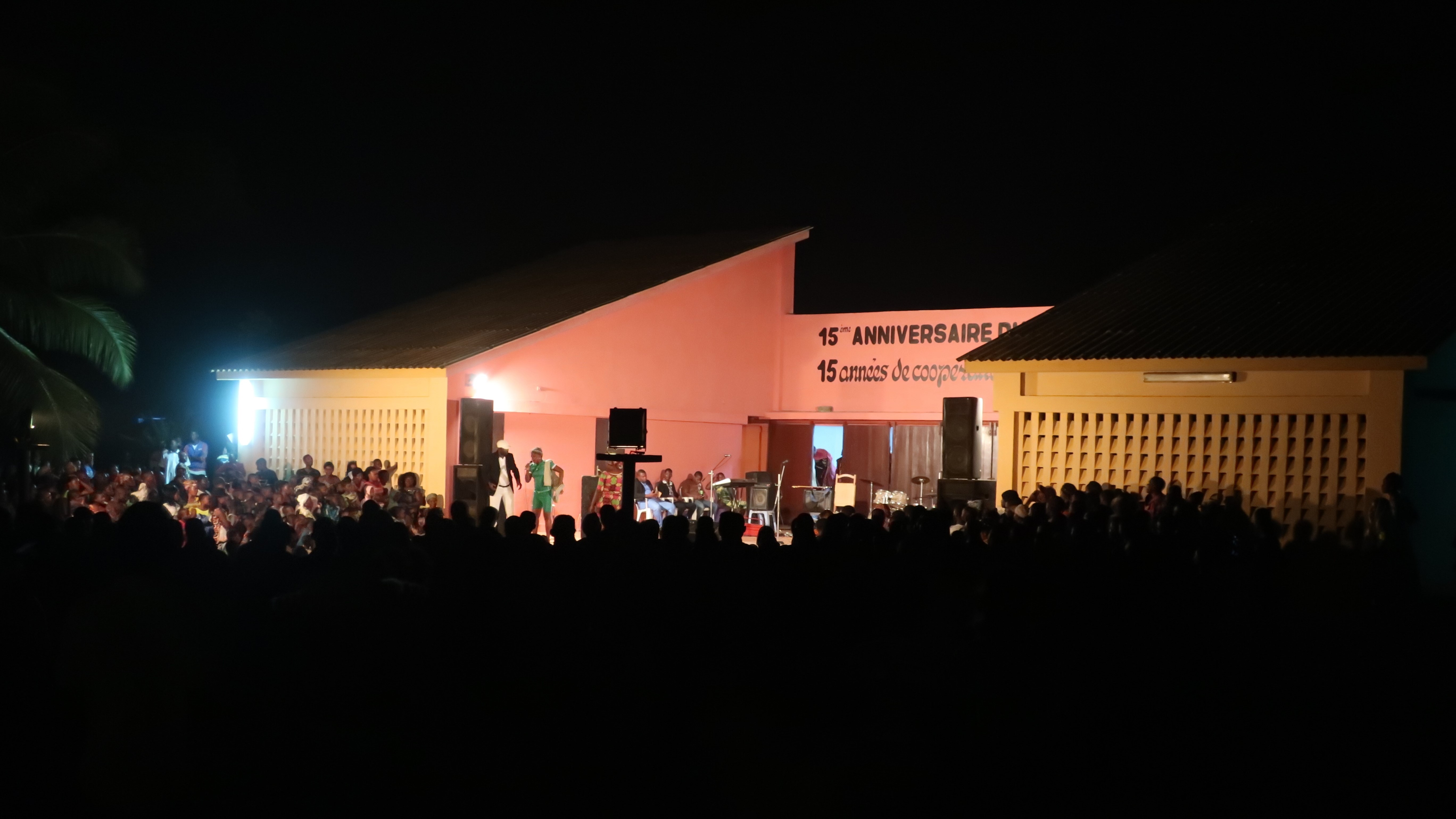 Audience is watching and listening in a night concert performance in Villa Karo cultural exchange center in Grand-Popo, Benin. This is an image with the theme "Play" from: Benin